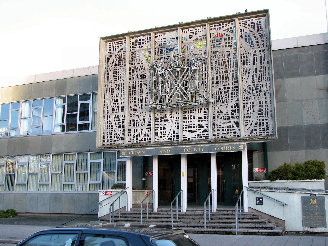 Plymouth Crown and County Courts, Plymouth, England